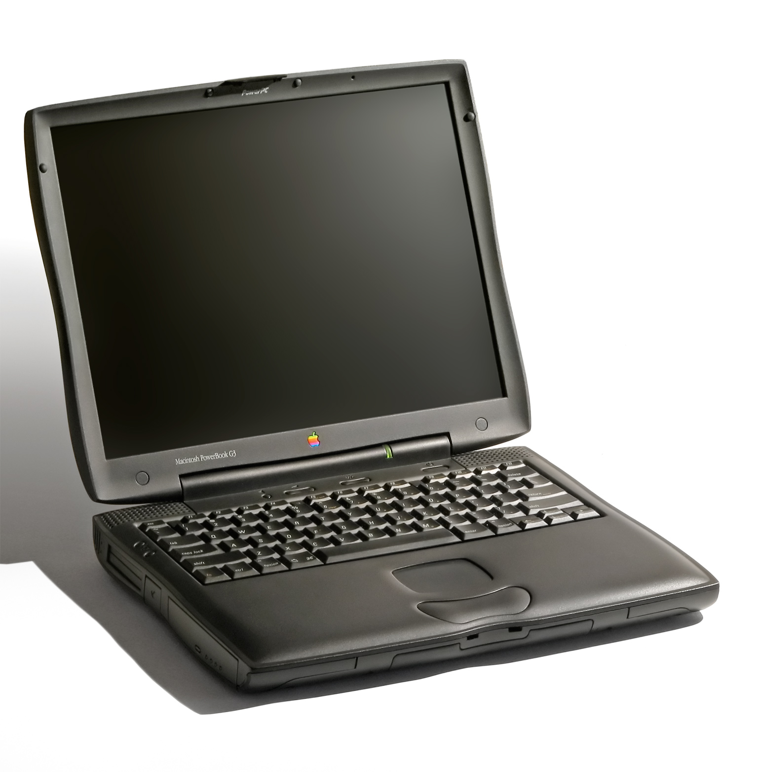 Macintosh Powerbook G3 - Wallstreet II/PDQ. Illustration by myself, from photography by myself.